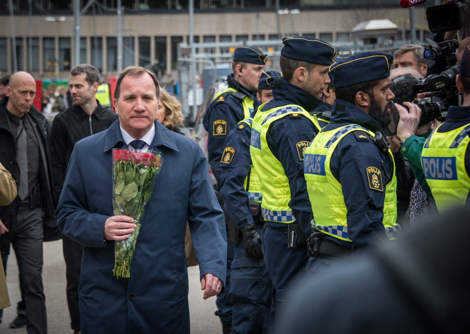 The day after the terrorist attack in Stockholm in april 2017.